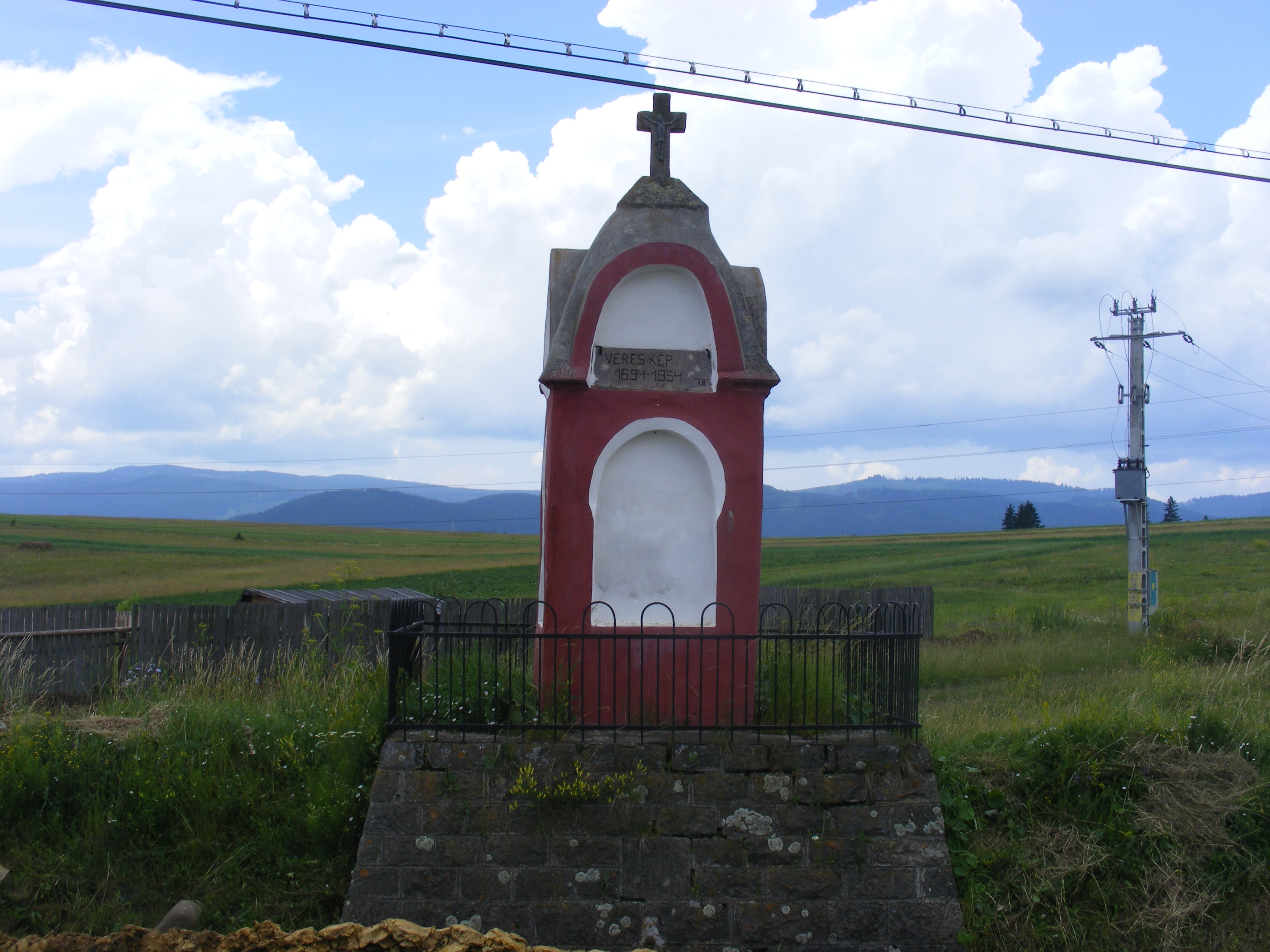 The Bloody face, near Csíkszentlélek, Romania, is a memorial for a battle between the székely's and the tatar's in 1694.